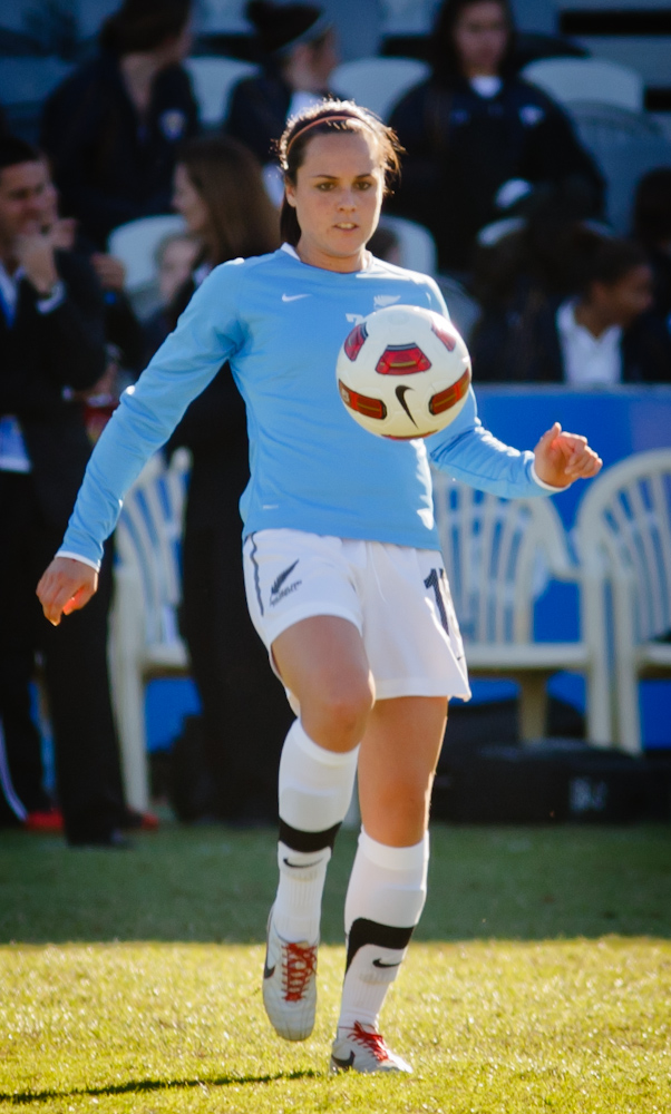 Emma Kete playing for the New Zealand women's national football team against Australia.